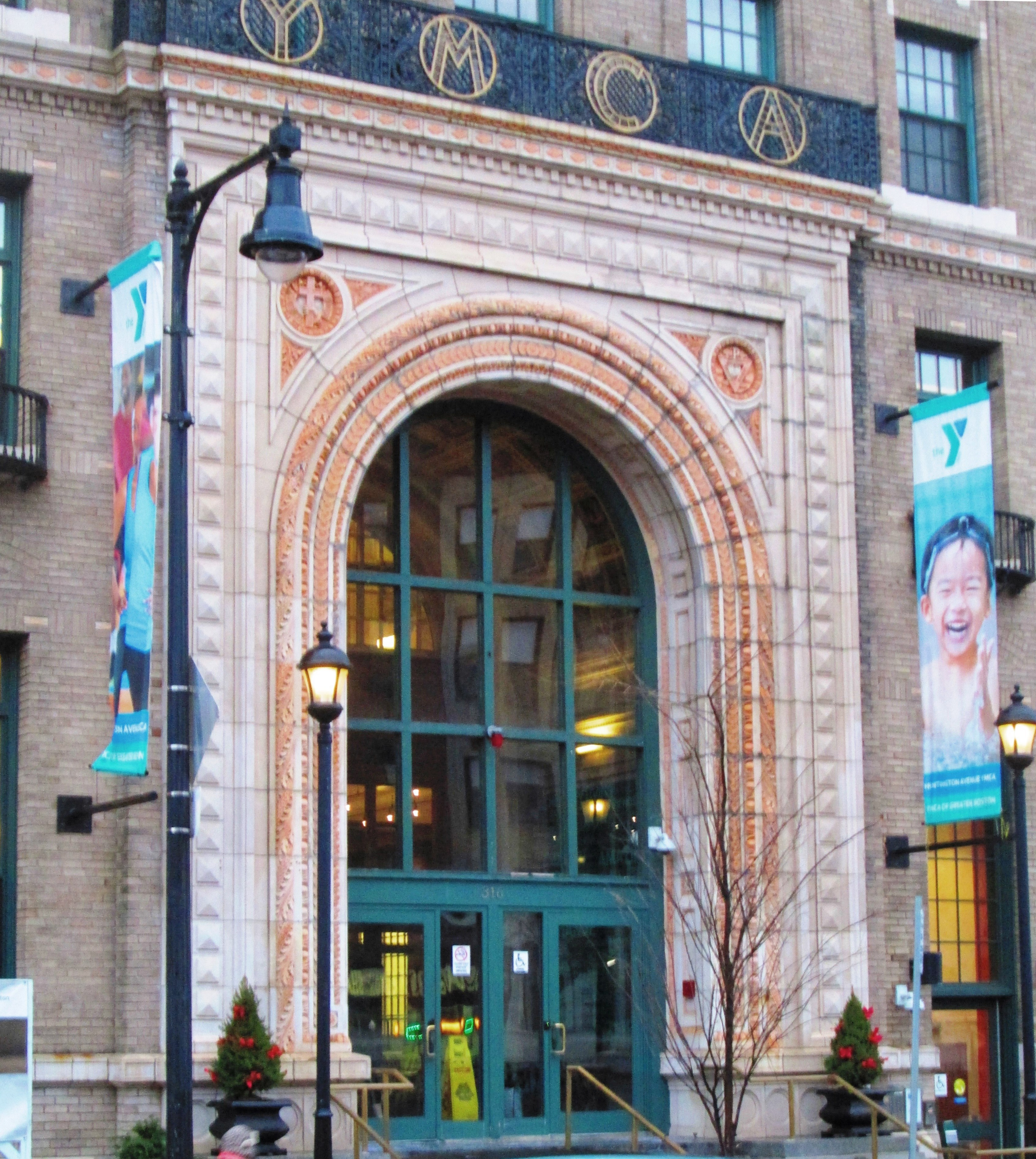 The Boston Young Men's Christian Association was founded in 1851, the first YMCA chapter in the United States. The Administration building at 316 Huntington Avenue was constructed in 1911 on what was once the peninsula of Gravely Point. It was designed by Shepley, Rutan and Coolidge The Education and Gym Buildings were built later, and sold to developers in 2012. The complex was listed on the National Register of Historic Places in 1998. (Source: NRHP application)